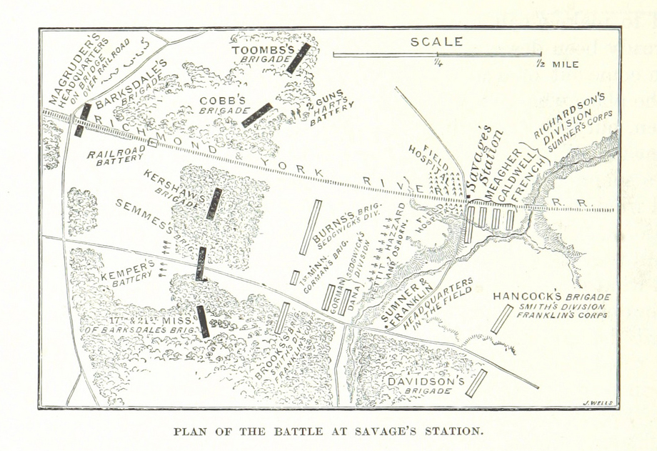 Plan of the Battle of Savage Station Image taken from page 398 of 'Battles and Leaders of the Civil War, being for the most part contributions by Union and Confederate officers, based upon “the Century War Series.” Edited by R. U. J. and C. C. B., etc. [Illustrated.]' Image taken from: Title: "Battles and Leaders of the Civil War, being for the most part contributions by Union and Confederate officers, based upon “the Century War Series.” Edited by R. U. J. and C. C. B., etc. [Illustrated.]" Author: JOHNSON, Robert Underwood - and BUEL (Clarence Clough) Contributor: BUEL, Clarence Clough. Shelfmark: "British Library HMNTS 9605.f.13." Volume: 02 Page: 398 Place of Publishing: 4 vol. The Century Co.: New York, 1887, 8º Date of Publishing: 1887 Issuance: monographic Identifier: 001886779